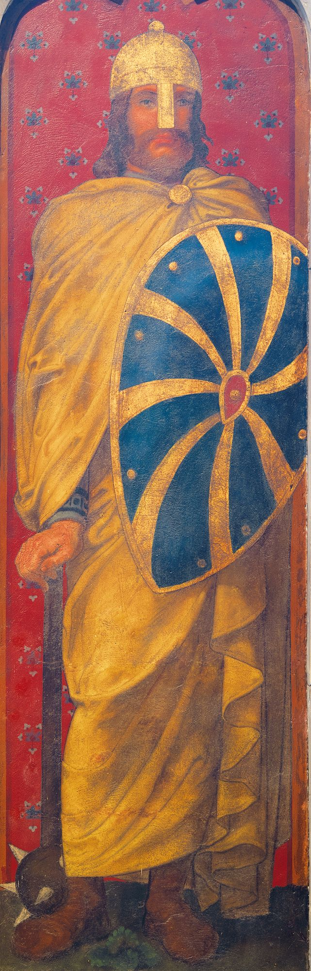 Arnulf II of Flanders